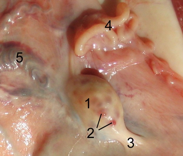 Ovary of a sheep. 1 ovary, 2 tertiary follicle, 3 Ligamentum ovarii proprium, 4 fallopian tube, 5 Arteria and Vena ovarica in Mesovarium